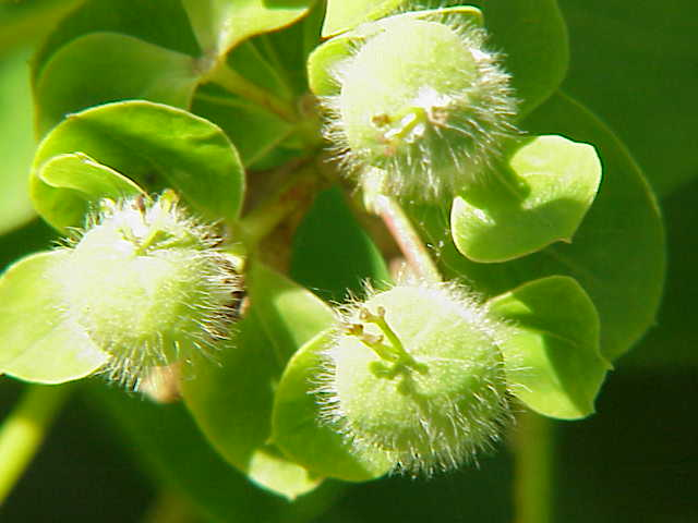 Species: Euphorbia dulcis Family: Euphorbiaceae Image No. 1